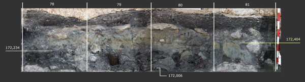 Section W